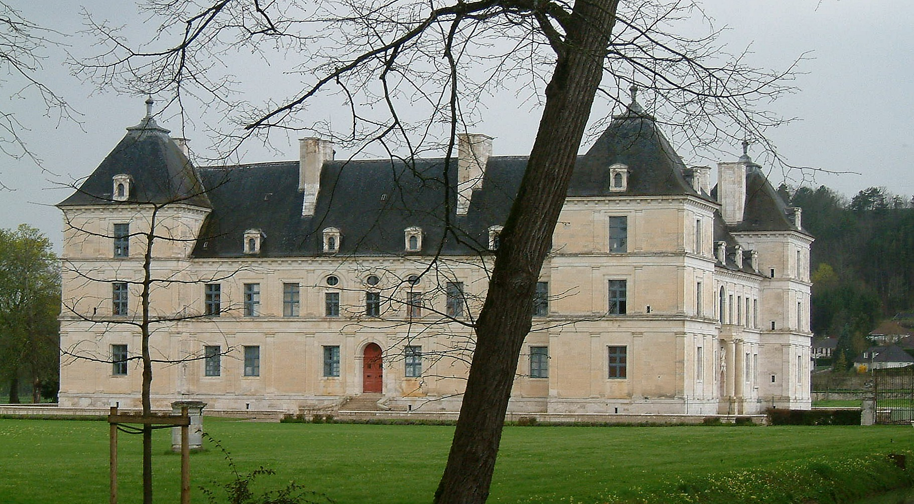 View of the left (southeast) facade of the Château d'Ancy-le-Franc, Burgundy, FRANCE.